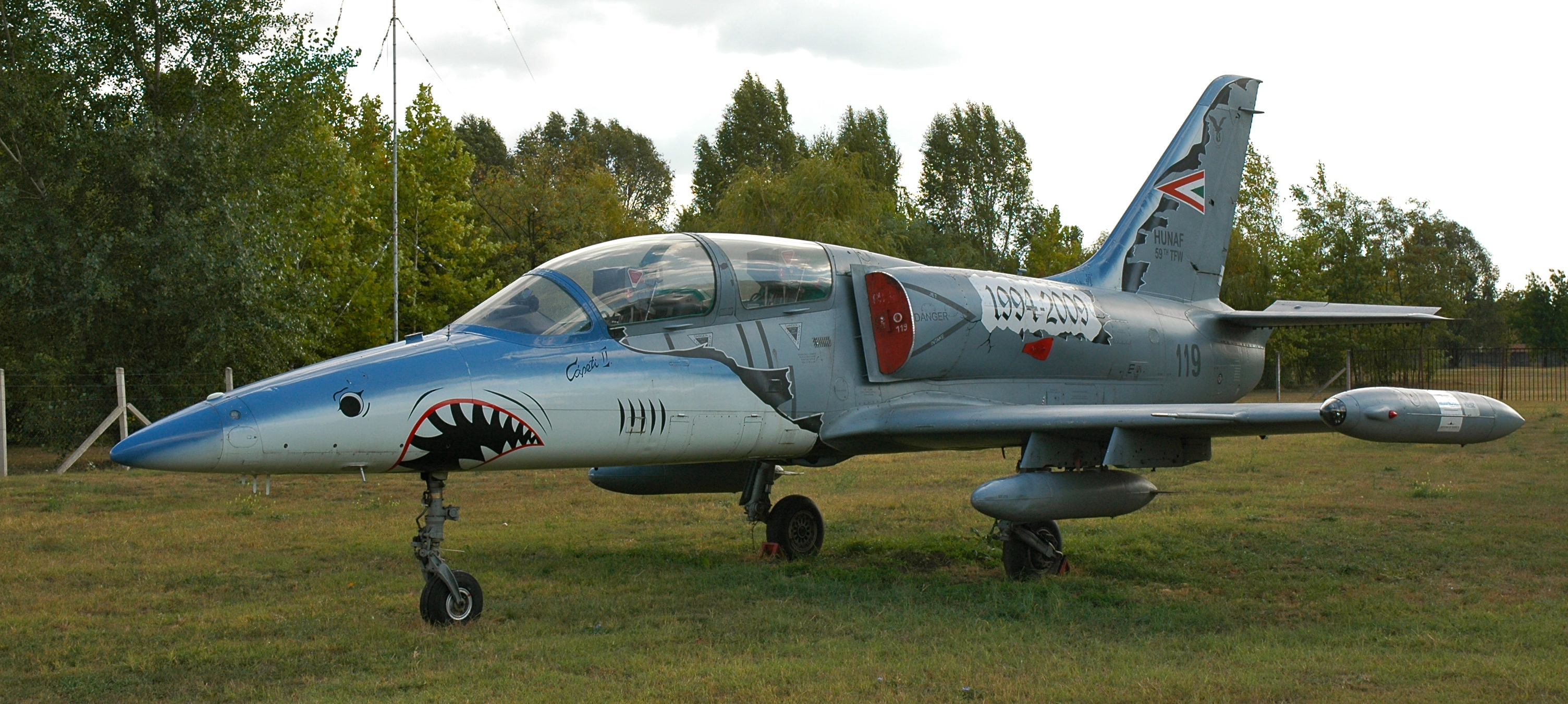 Aero L-39ZO Albatros of Hungarian Air Force, displayed at the Museum of Hungarian Aviation in Szolnok